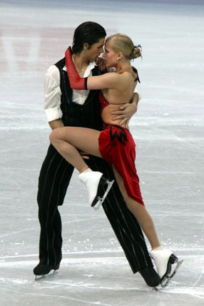 Kaitlyn Weaver & Andrew Poje during their Argentine Tango compulsory dance at the 2008 World Figure Skating Championships